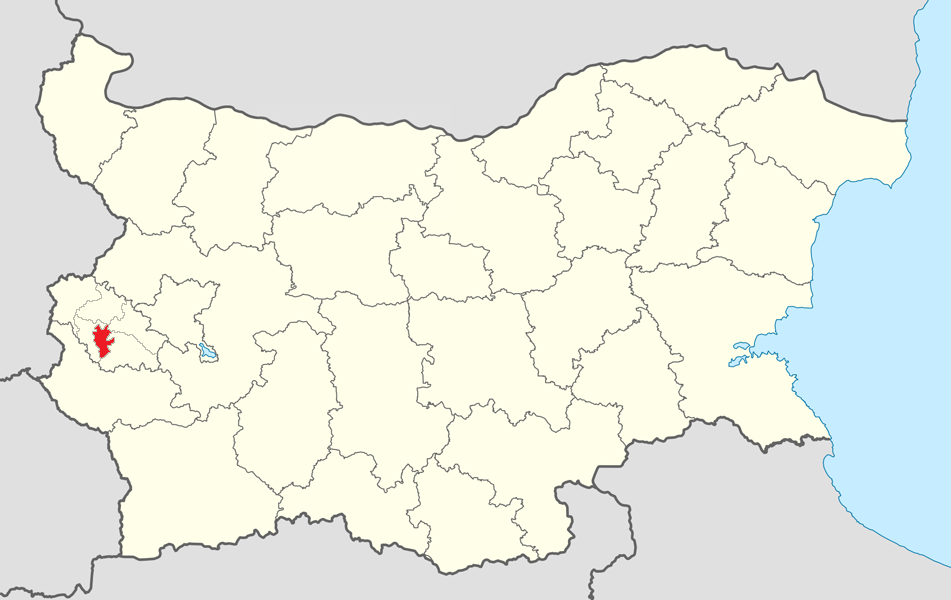 Location map of Kovachevtsi Municipality within Bulgaria and Pernik province